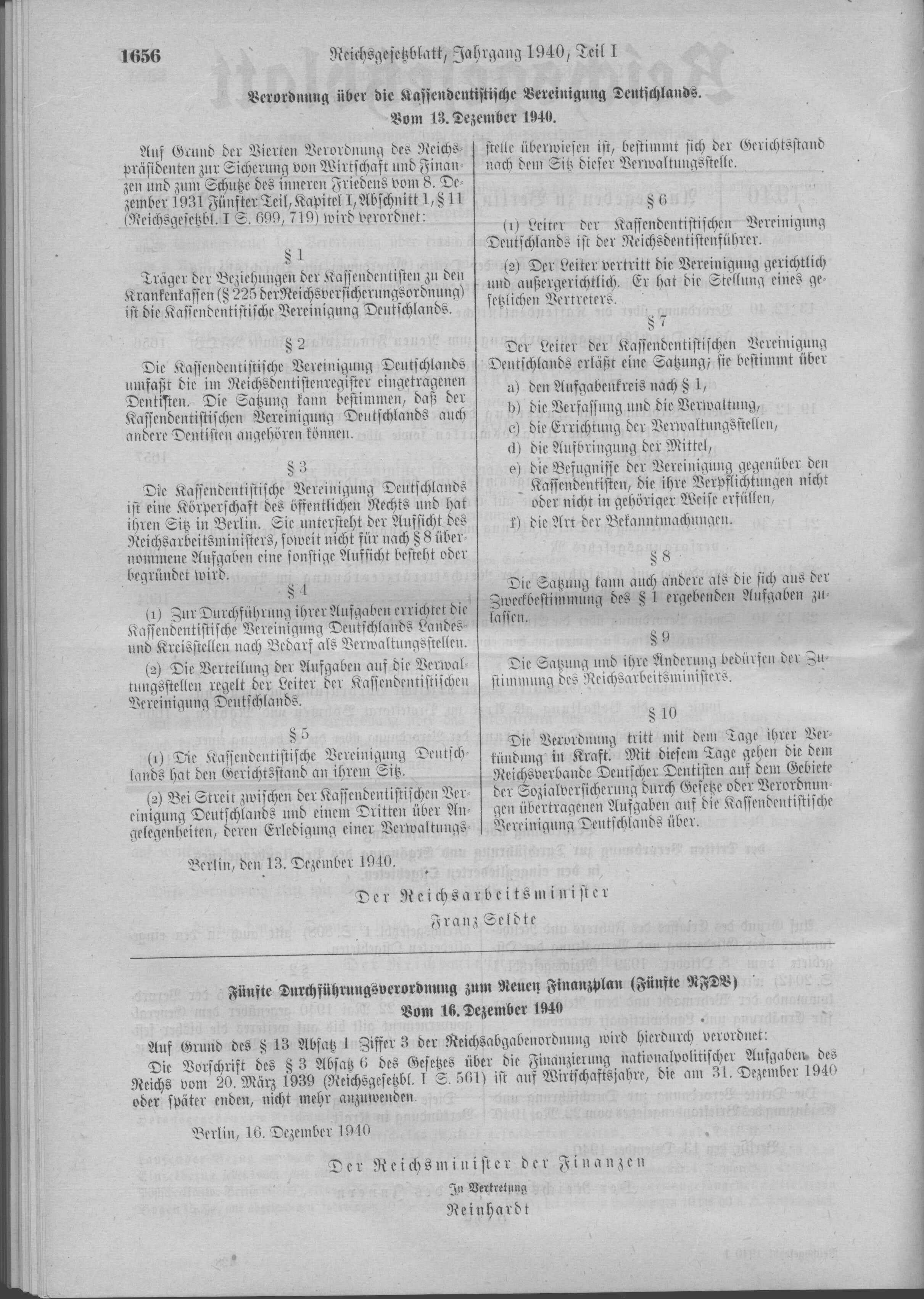 Scan from the Imperial Law Gazette of Germany, 1940, part 1